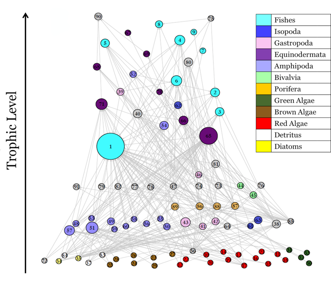 Antarctic marine food web - Potter Cove. Vertical position indicates trophic level and node widths are proportional to total degree (in and out). Node colors represent functional groups. See: Marina, T.I., Salinas, V., Cordone, G., Campana, G., Moreira, E., Deregibus, D., Torre, L., Sahade, R., Tatian, M., Oro, E.B. and De Troch, M. (2018). "The food web of Potter Cove (Antarctica): complexity, structure and function". Estuarine, Coastal and Shelf Science, 200: 141–151.